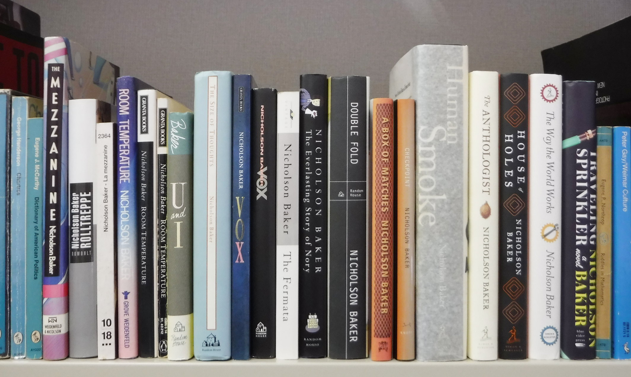 Some books by Nicholson Baker (flanked by irrelevant Pelicans)